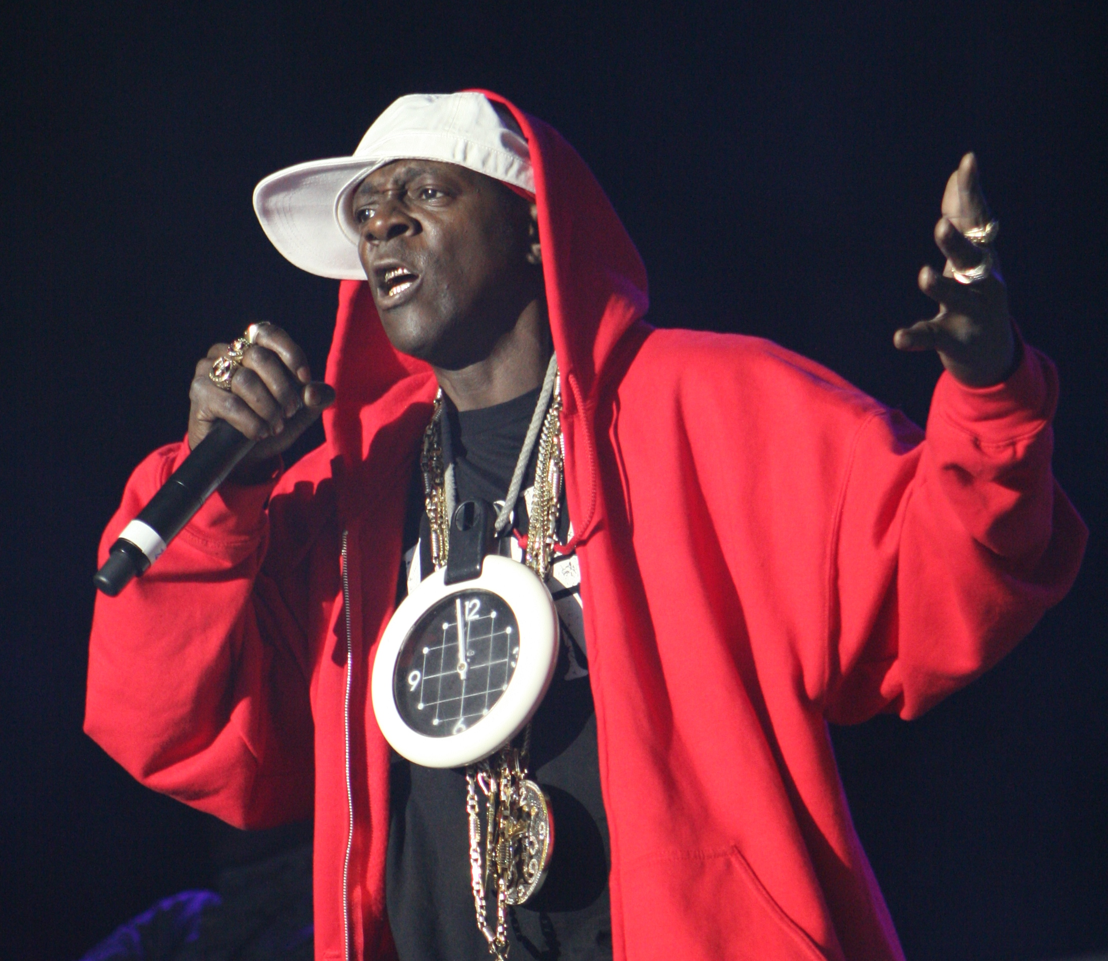 Public Enemy en el Primavera Sound 2008